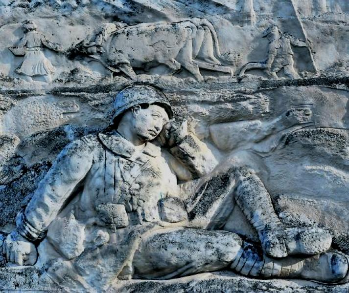 Relief by Andre Abbal on French War Memorial. Now that 70 years have passed since Abbal's death this photo can be shown in the public domain.